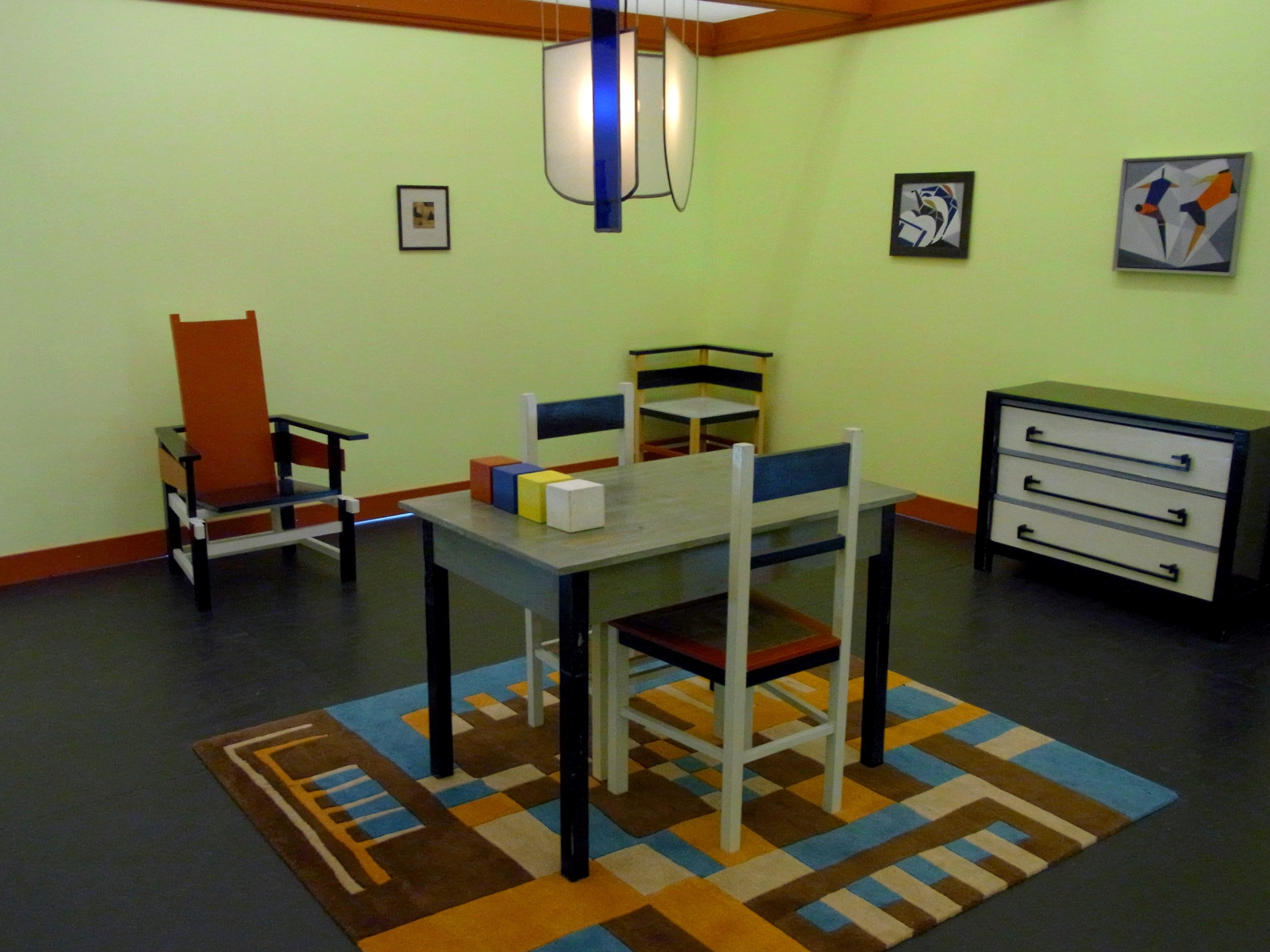 Room Designed by Thijs Rinsema